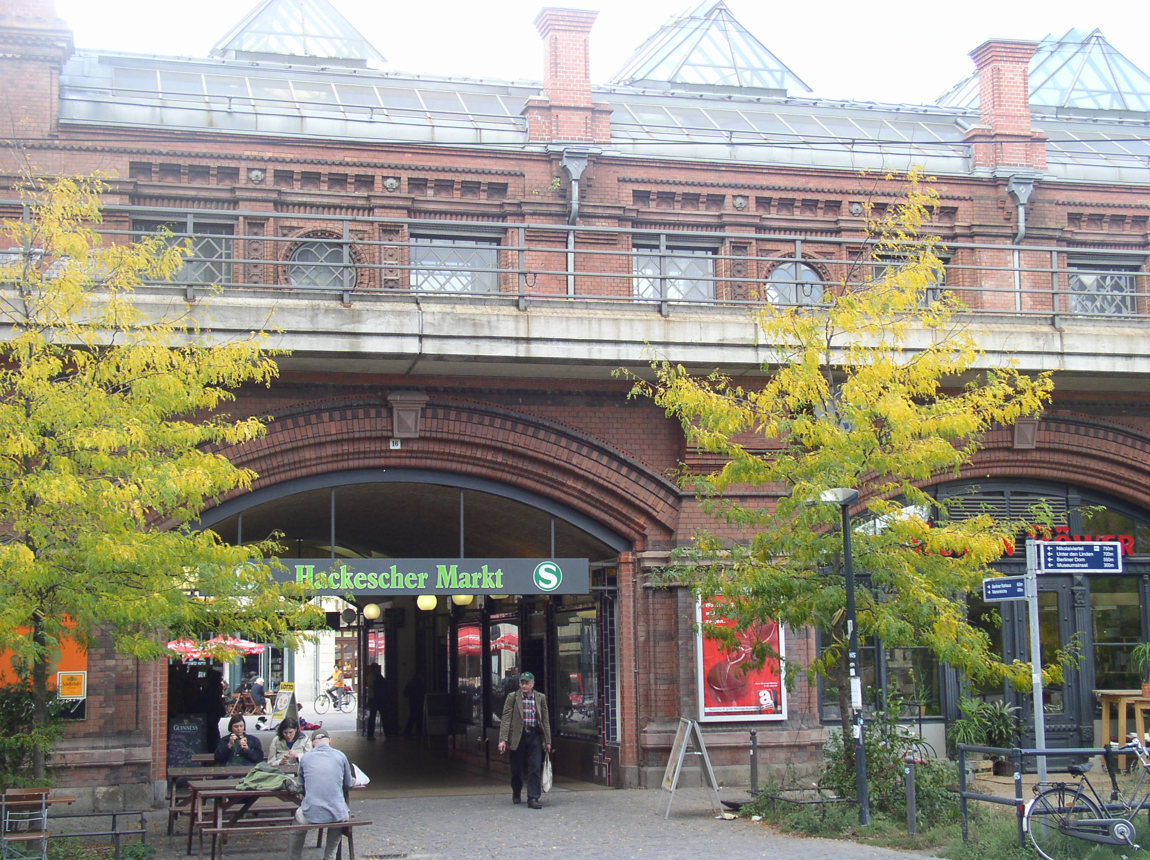 Berlin's S-Bahn station Hackescher Markt, south side